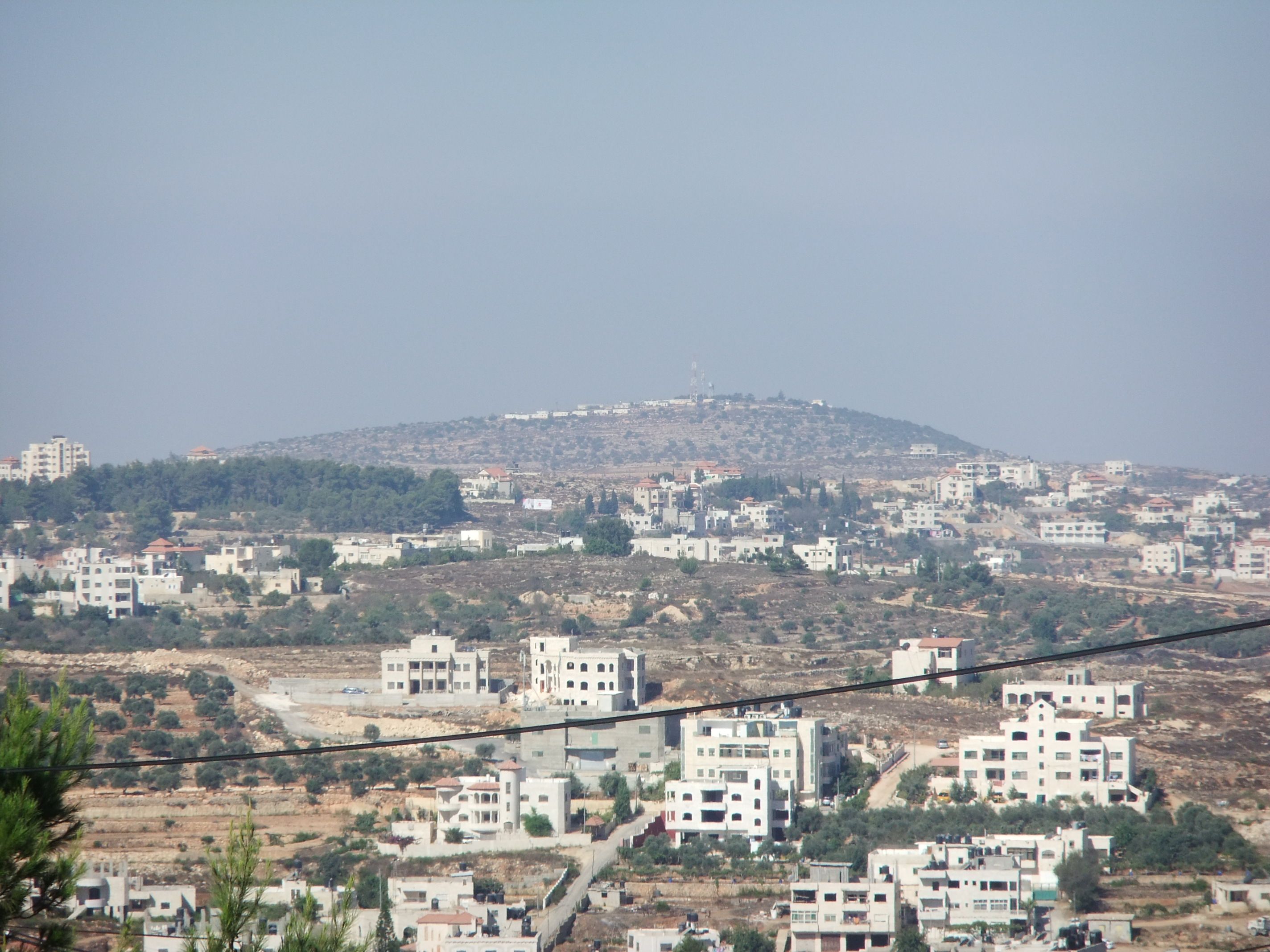 The close houses belong to Jalazone and the far Caravans on the mountain are Haresha. The middle houses to the right are AbuQash, on the let is the edge of Surda